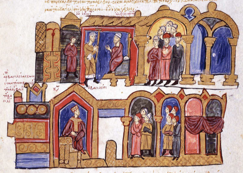 The appointment of Alexios Stoudites as Patriarch of Constantinople (top) by Emperor Constantine VIII (bottom). Fol. 196v of the Madrid Skylitzes